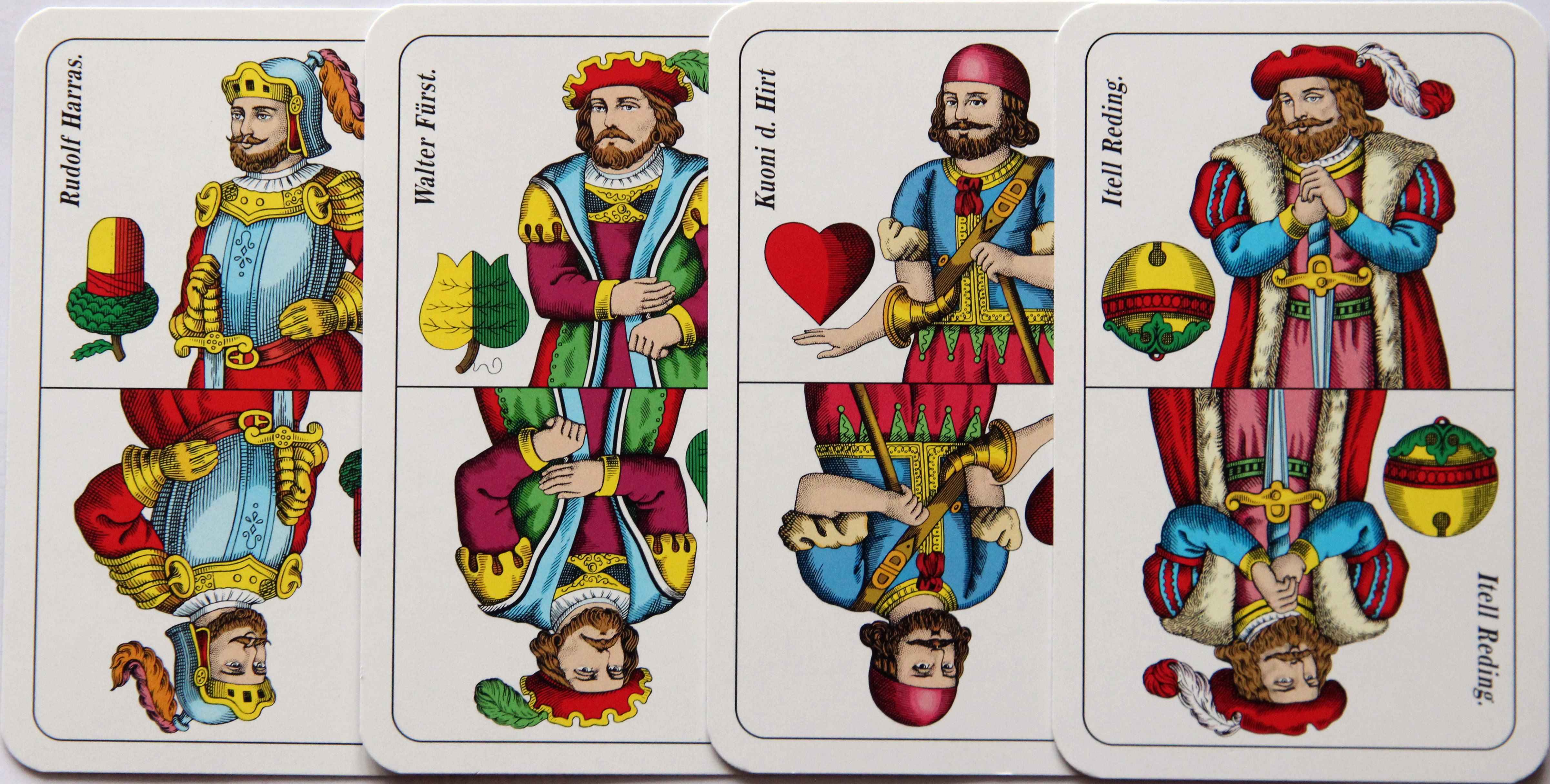 The four Unters or Bauern from a traditional William Tell pattern pack The original artist of the card design is József Schneider, 19th century (source: Daily News Hungary: From Germany to Hungary, the story of tell cards, by Gergely Lajtai-Szabó, 15 October 2017).